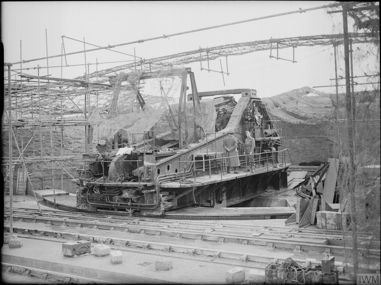 Britain's Coastal Defences 1939-45 'Pooh', the second of two 14-inch guns emplaced at St Margaret's, near Dover, 10 March 1941. The first gun, named 'Winnie', was in place by August 1940 and 'Pooh' followed in February 1941. Both came from the reserve stock of guns for the 'King George V' class of battleships, and were mounted on modified naval barbettes. Manned by Royal Marine gunners, they were mostly employed in counter-battery fire with German batteries on the French coast.